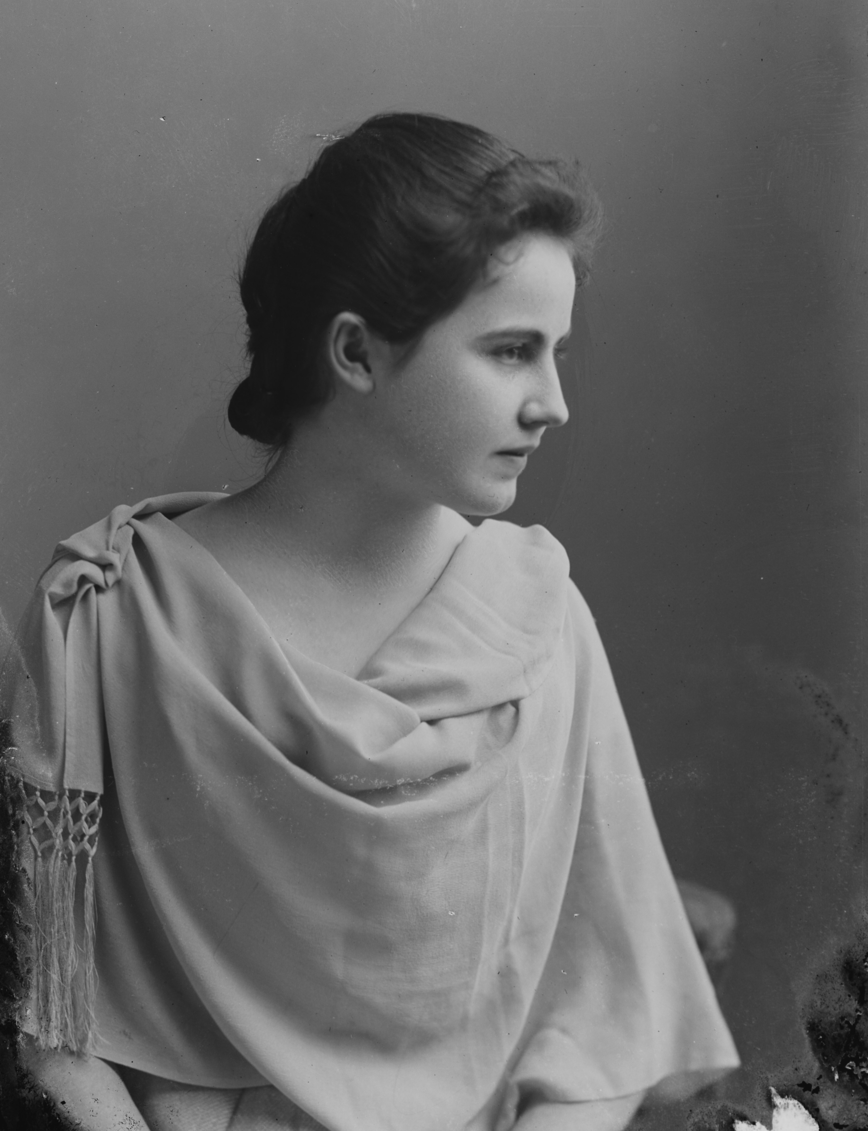 Title: Edith Bolling (married Woodrow Wilson) Abstract/medium: 1 negative : glass.